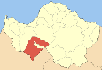 Locator map of Tritaias municipality (Δήμος Τριταίας) in Achaia perfecture (Νομός Αχαΐας) in Greece.